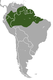 Linné's Two-toed Sloth (Choloepus didactylus) range